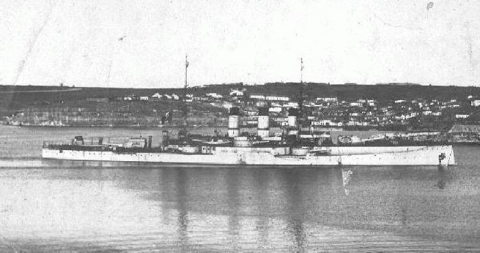 The Italian pre-dreadnought battleship Roma